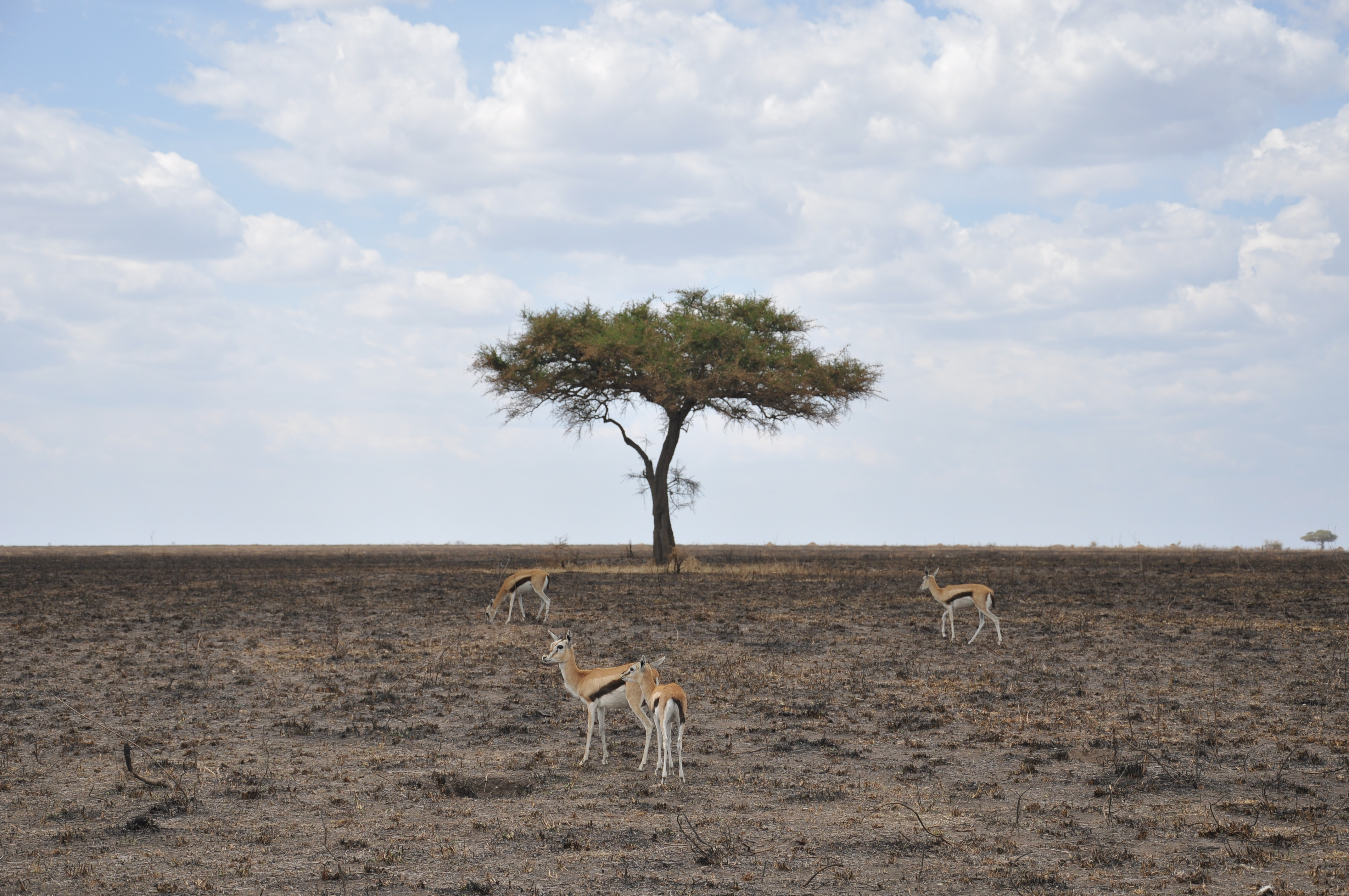 Thomson's gazelles in the central Serengeti